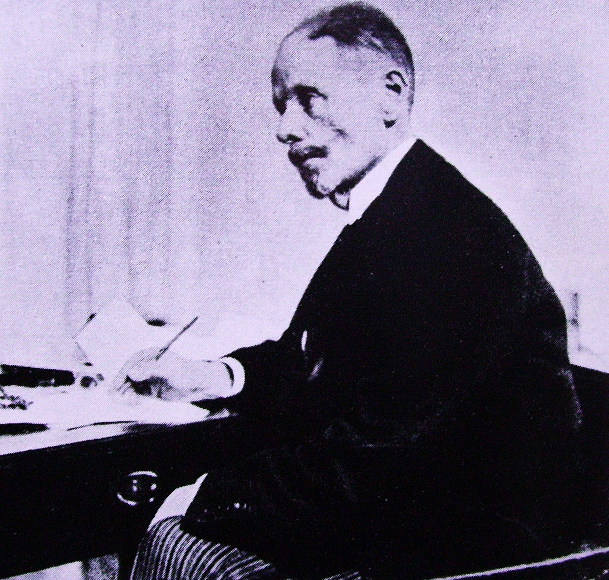 Picture of Alexis Gripenberg in Stockholm, Finnish ambassador